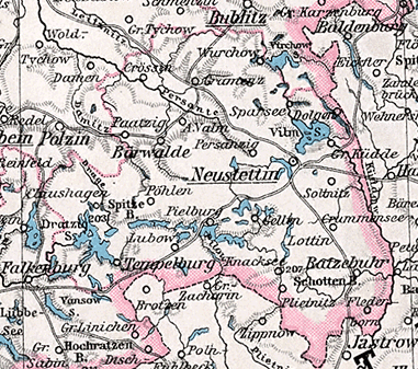 Detail from a map of Pomerania.